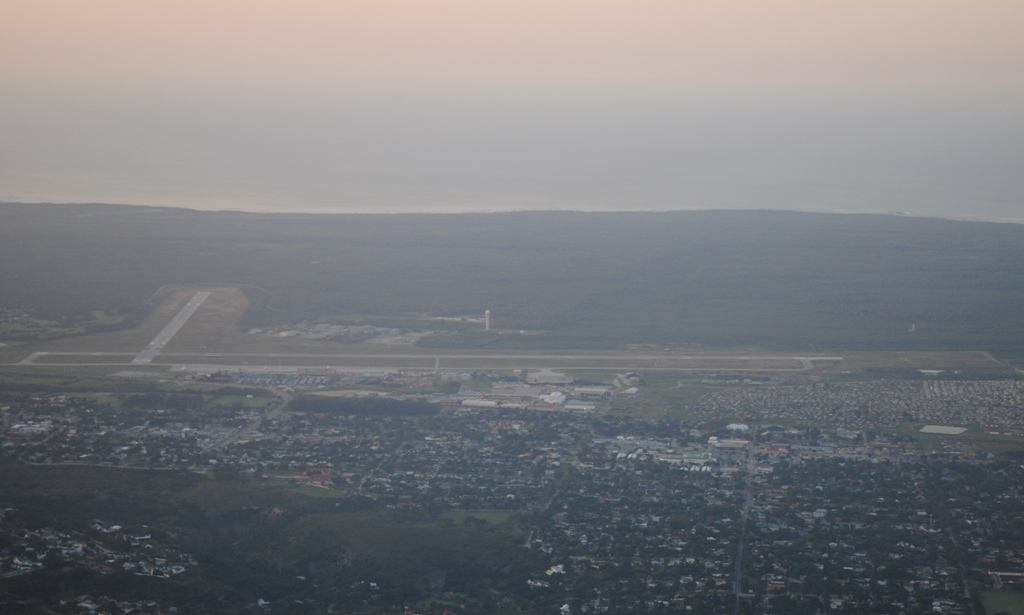 Aerial view of Port Elizabeth Airport (view from North to South)